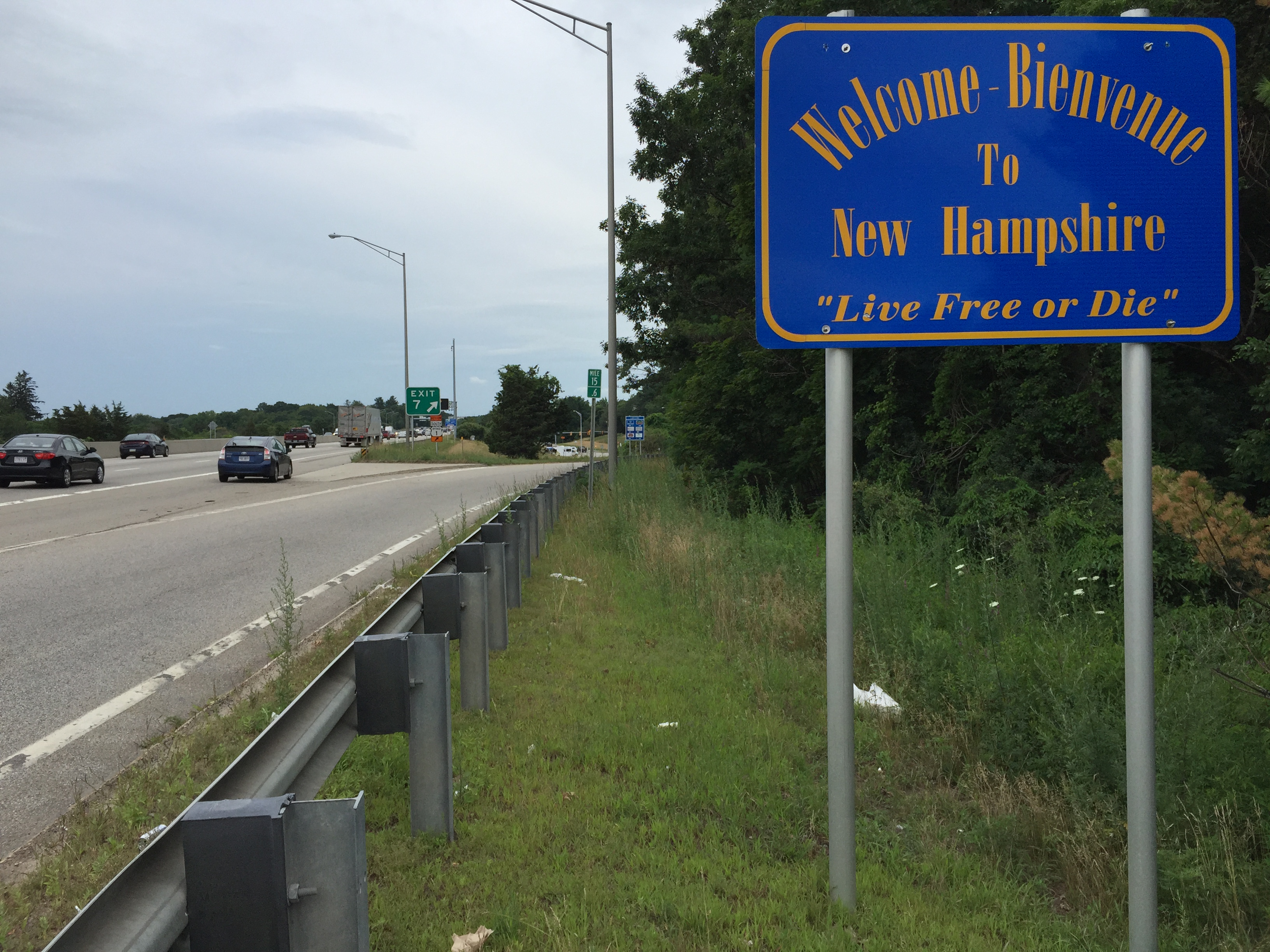 View south along Interstate 95 (Blue Star Turnpike/New Hampshire Turnpike) entering Portsmouth, Rockingham County, New Hampshire from Kittery, York County, Maine